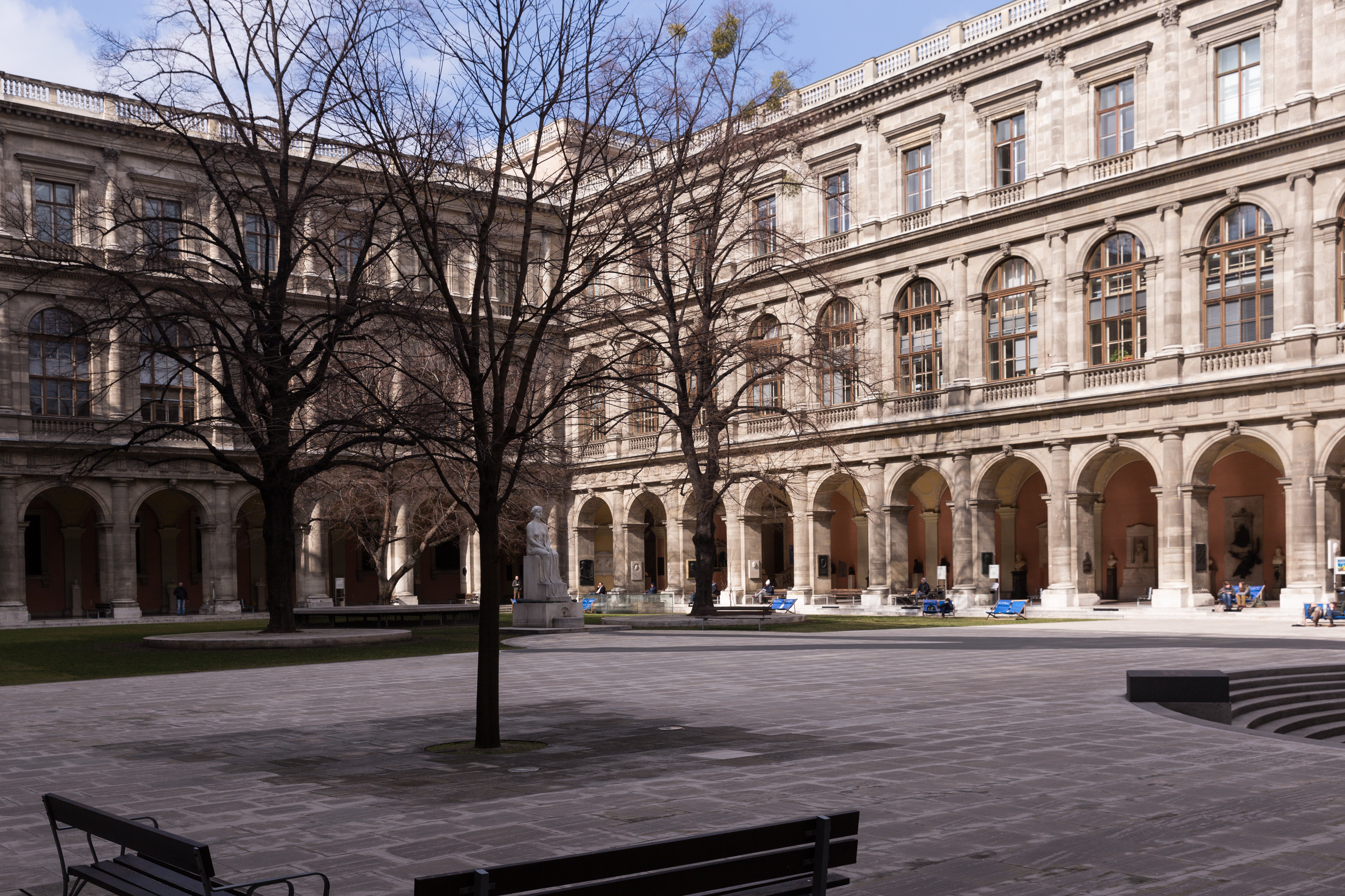 Arkadenhof in the University of Vienna